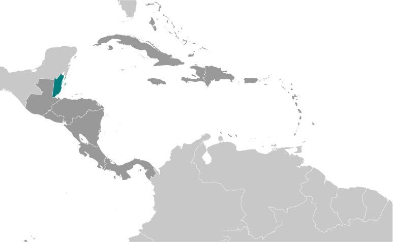 Map of Central America and the Caribbean highlighting Belize